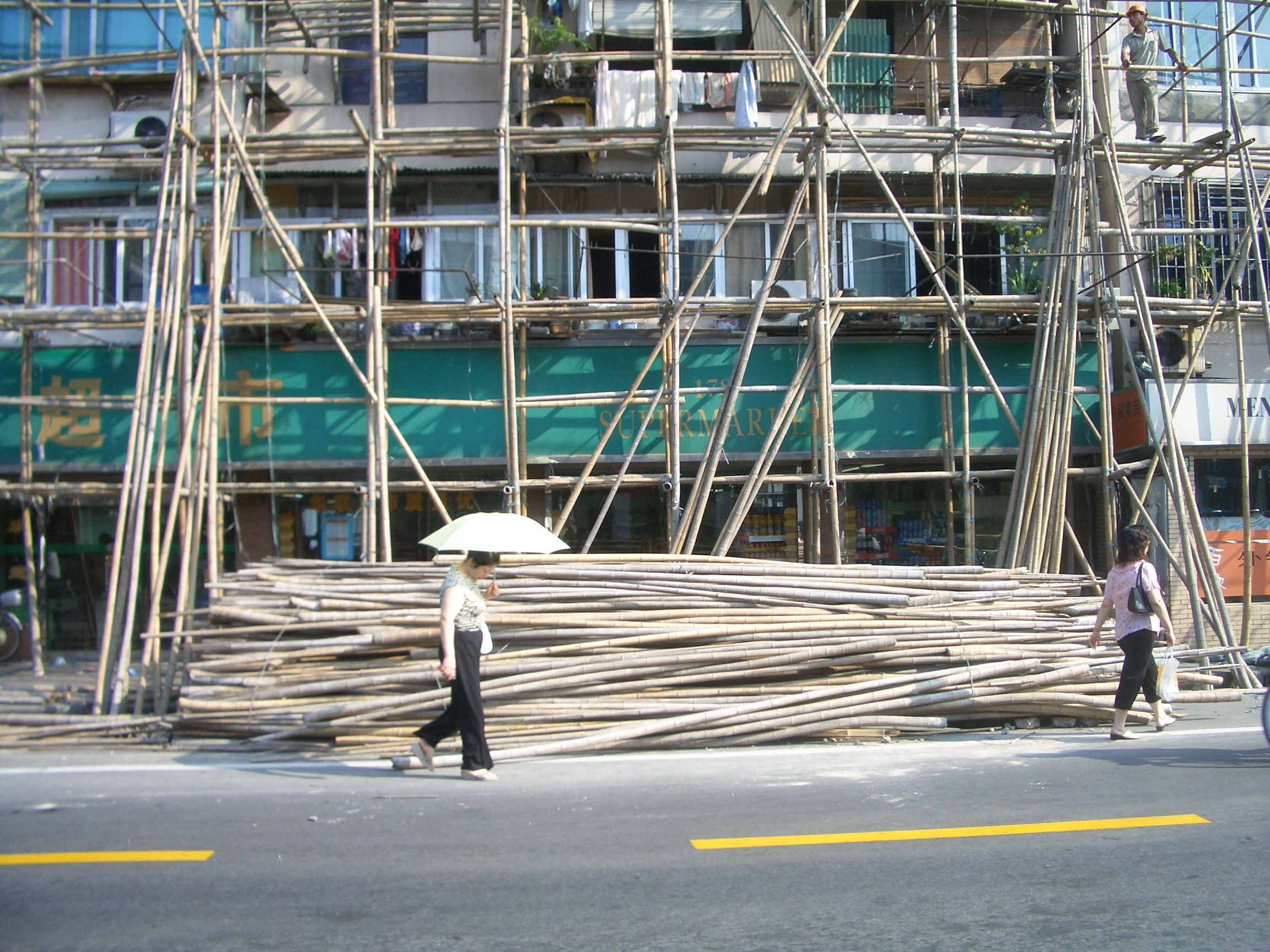 This scaffolding in Shanghai is going up, not down so as you can see they have a lot of work to do, but in just a day or two it will be finished and all of that building will be wrapped in bamboo scaffolding.